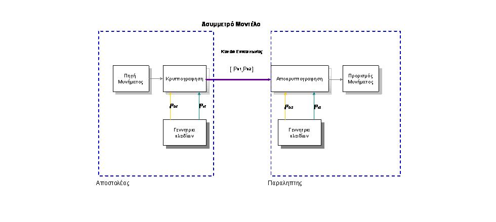 Public-key cryptosystem